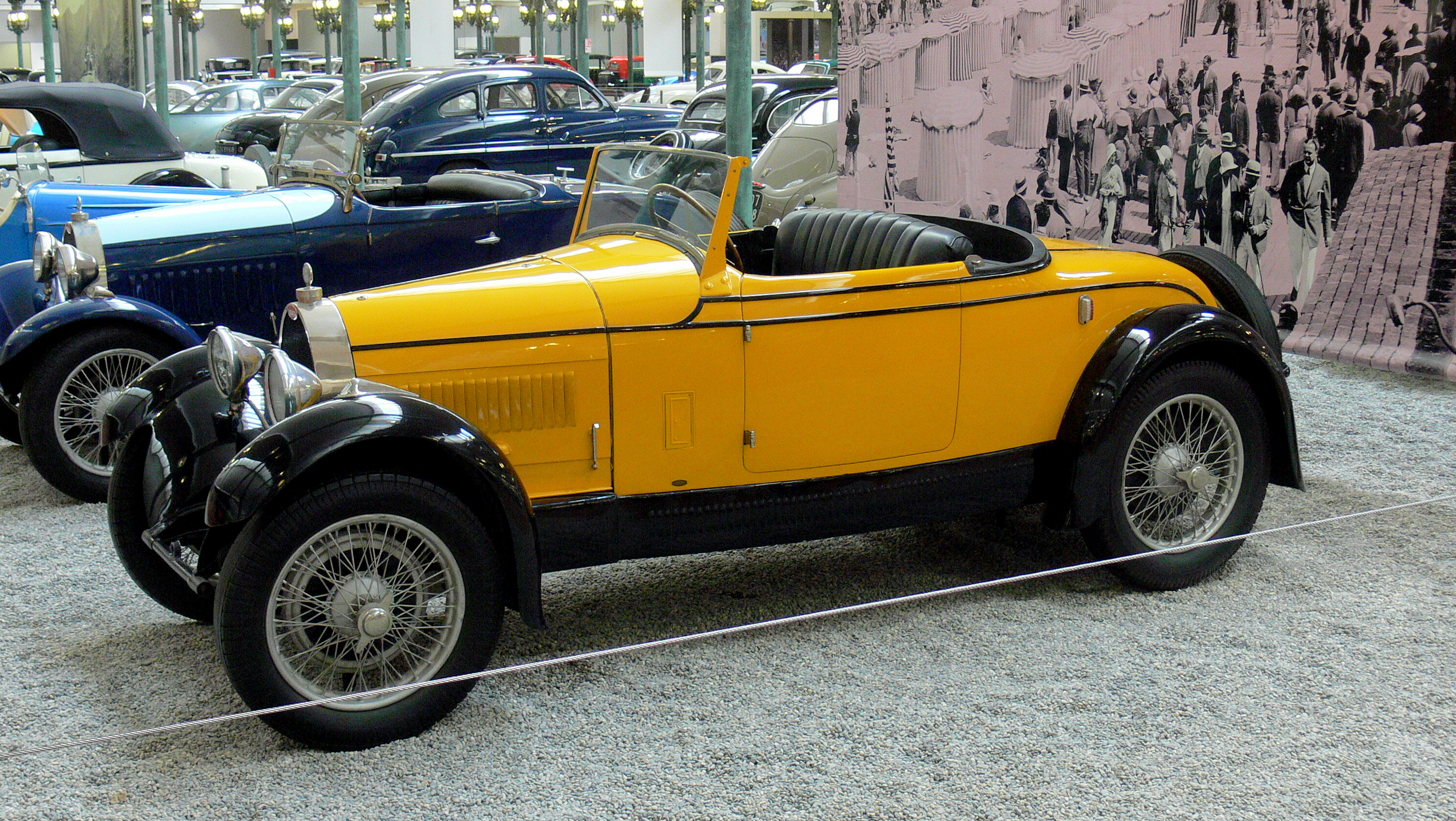 Bugatti Roadster Type 40A (1929) in the Musée National de l'Automobile (Muhlhouse)